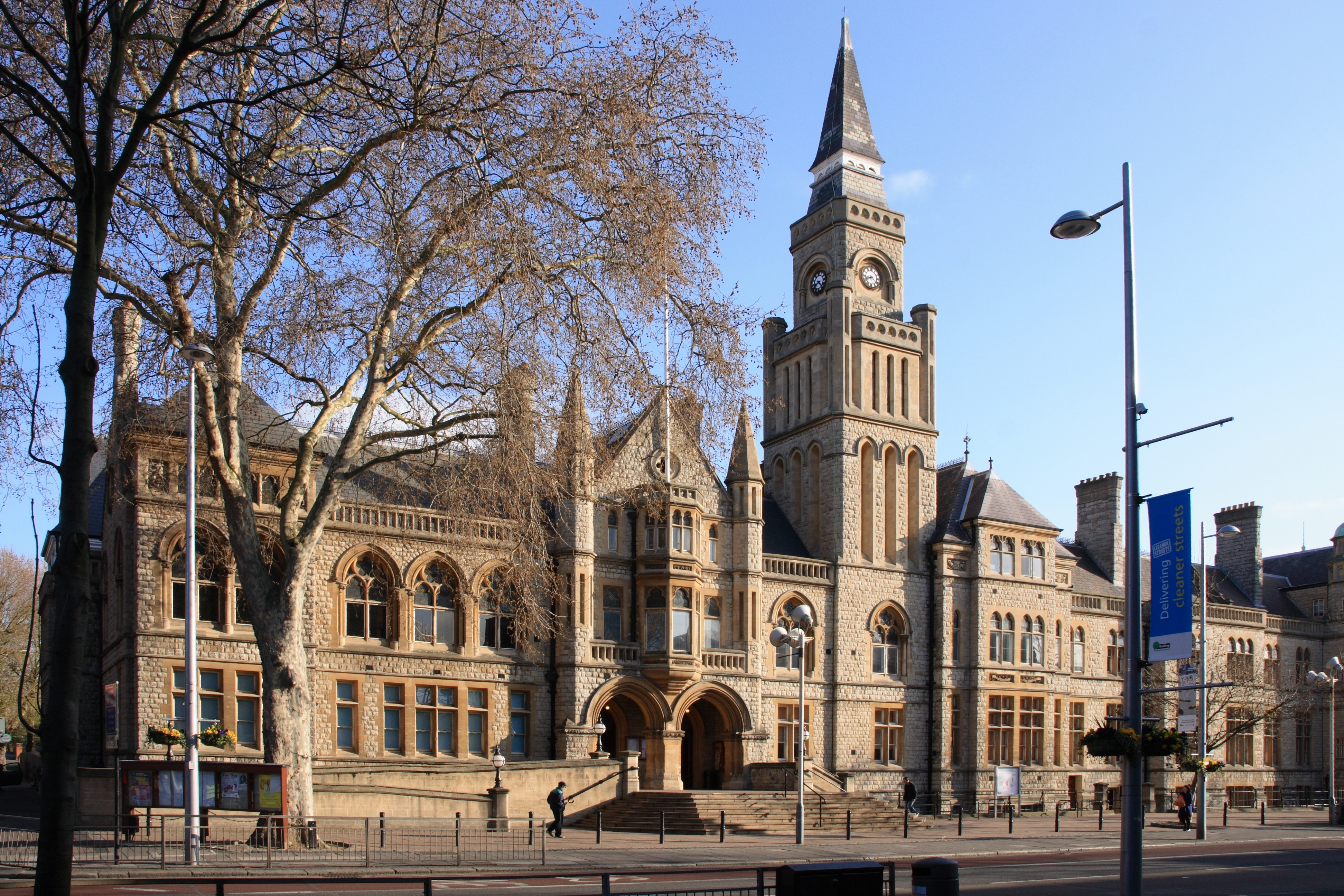 Ealing Town Hall (1888). Architect: Charles Jones. Situated on the Uxbridge Road, Ealing, W5 London, United Kingdom. The wing sightly recessed back on the right-hand side (partly obscured by a black lamp post) is a latter addition to the original building. Part of the upper building and roof was badly damaged some years ago by fire. Behind the tree on the far left at the back of the offices is the Victoria Hall. Original council office building still stands 500 yards further east on the same side of the road.